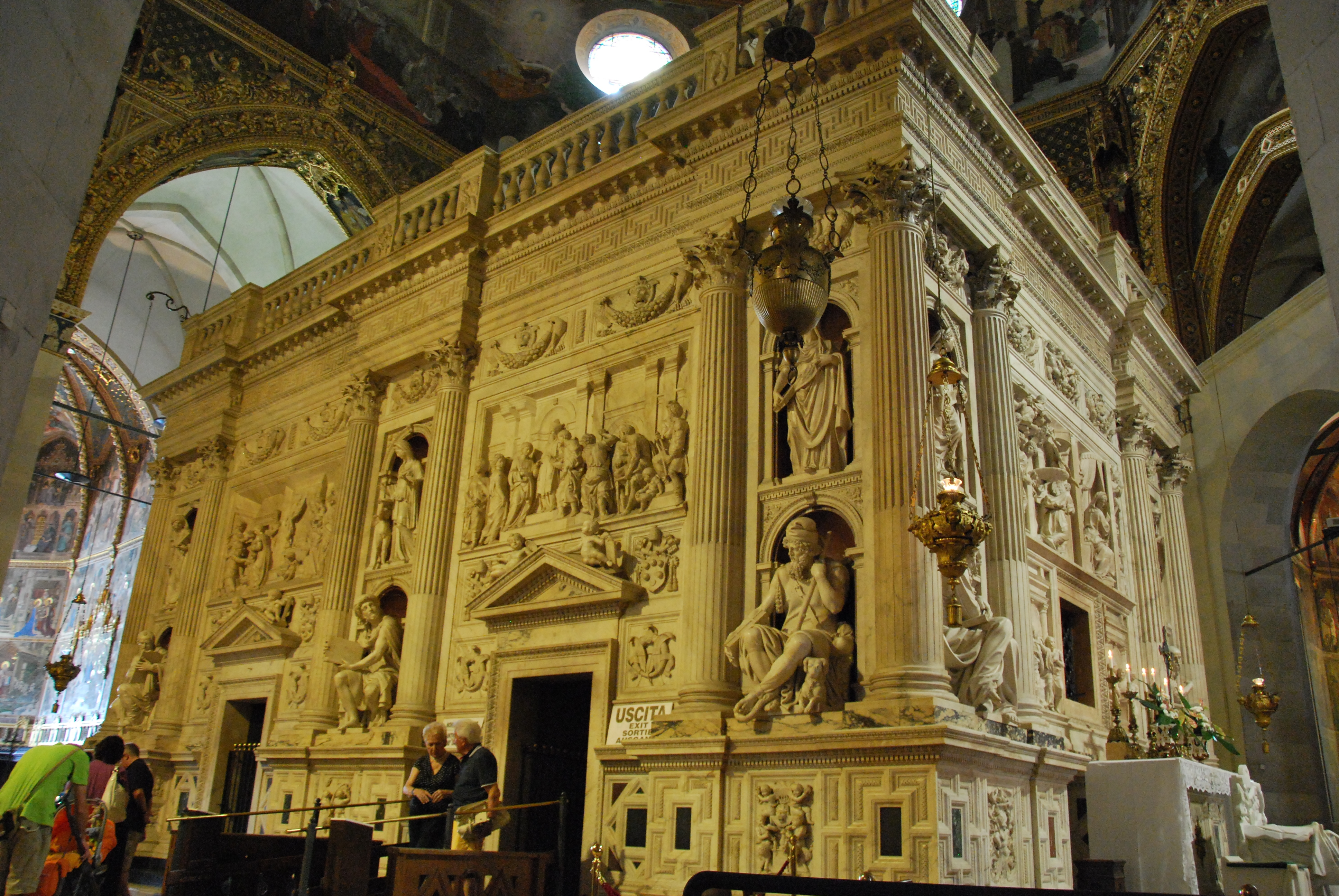 Santuario della Santa Casa in Loreto - Casa Santa